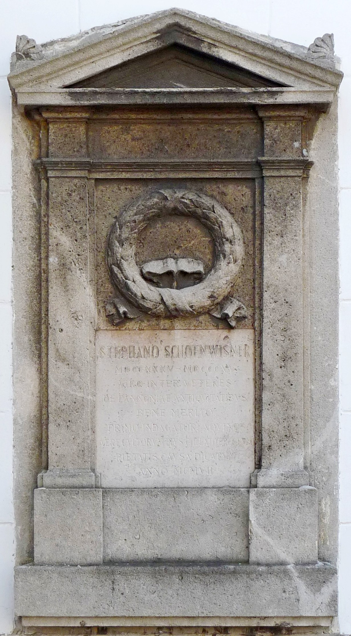 Commemorative plaque to Mr. István Schoenwisner (Schönvisner) (1738–1818) Hungarian archaeologist, librarian and professor who made the first scientific excavations in Aquincum. The relief sculpted by Mr. János Darás is affixed to the wall of the old main building of the Aquincum Museum. (Budapest, District III, Szentendrei Avenue Nr 135-139)